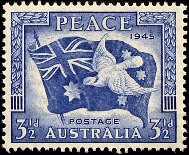 A postage stamp of Australia issued 1946